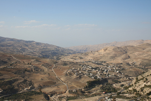 View from Al Karak castle